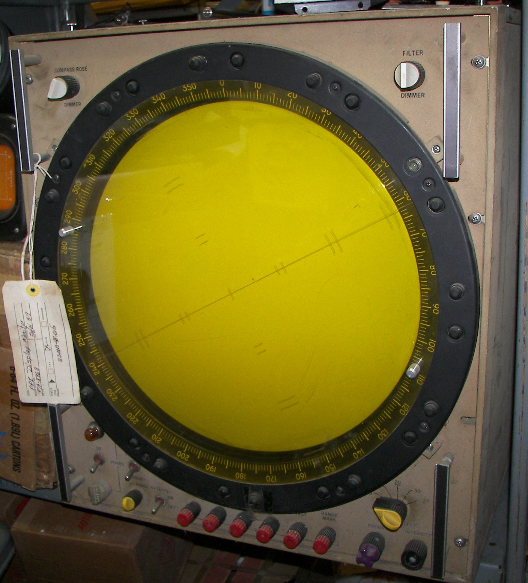 Airport Surveillance RADAR, Model 7, PPI Display Monitor (Operator controls and display unit), Uses 15 inch round CRT with P7 phosphor, accelerating voltage 12KV. Electromagnetic deflection. Vector monitor with in-built PPI sweep generator and control circuitry for ASR-7 radar transmitter-receiver. FAA designation FA-8968, NSN 6625-01-022-3203, Prime manufacturer: Raytheon (This specimen by Cardion Electronics unit of General Signal, Woodbury, NY.